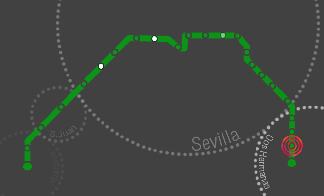 Location